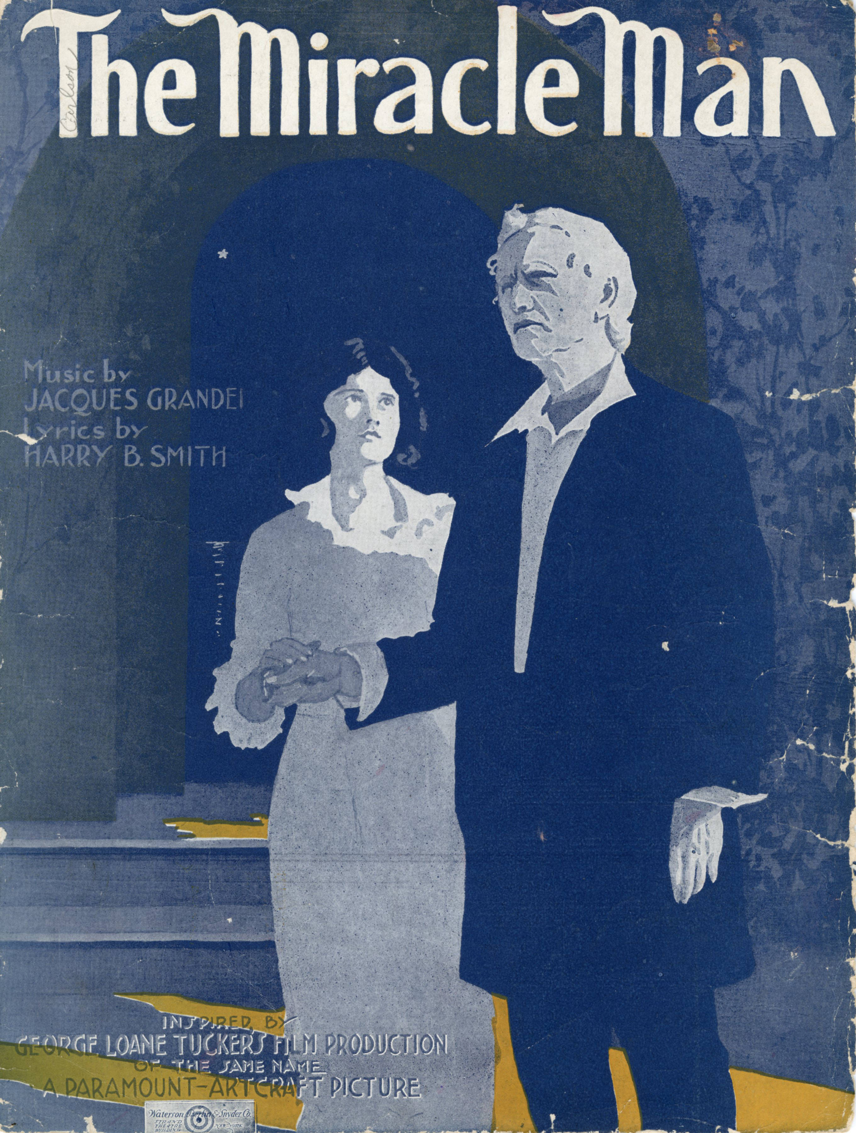 Sheet music cover: "The Miracle Man" 1 vocal score (3 p.) ; 31 cm. Illustrated cover with image of Betty Compson and Joseph J. Dowling. The Miracle Man (Motion picture : 1919)